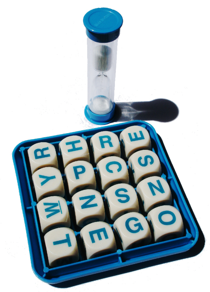 Boggle